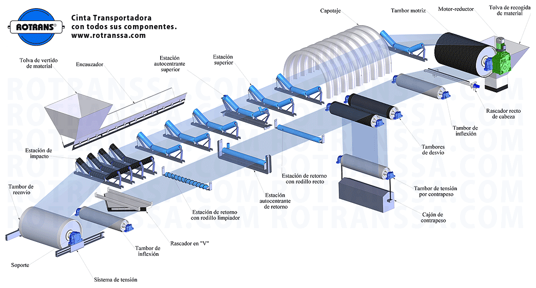 Conveyor belt